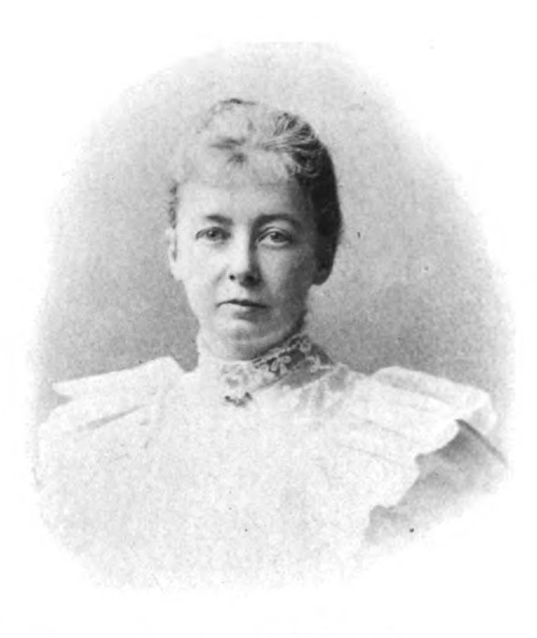 Photograph of writer Sarah Barnwell Elliott